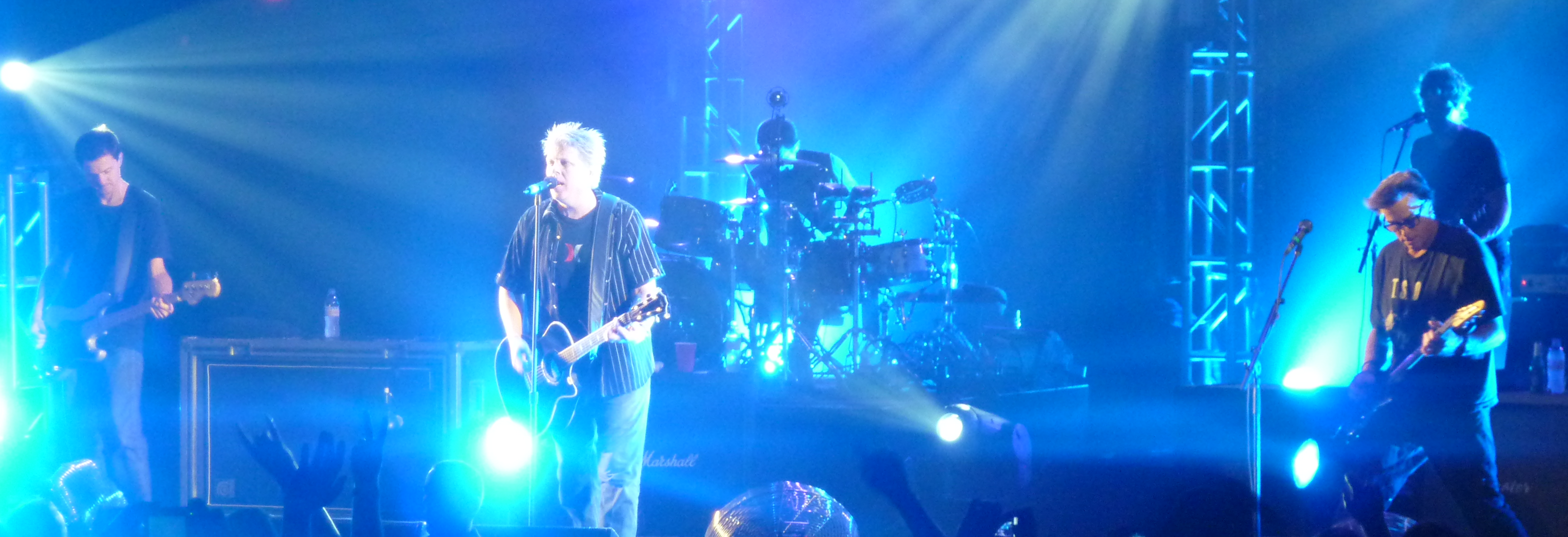 The Offspring in England - August 25, 2009.